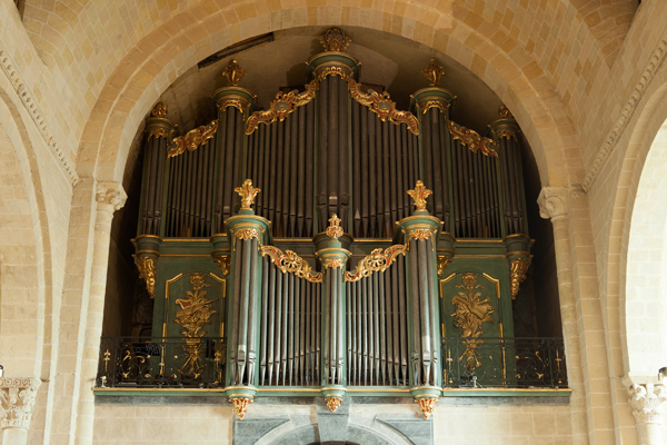 Cathédrale Notre-Dame; Lescar, Pyrénées Atlantique, Aquitaine, France; ; l'orgue; Photographer: Paul M.R. Maeyaert; © Paul M.R. Maeyaert; ; Cultural heritage/Cathedral; Cultural heritage/Organ music; Europe/France/Lescar